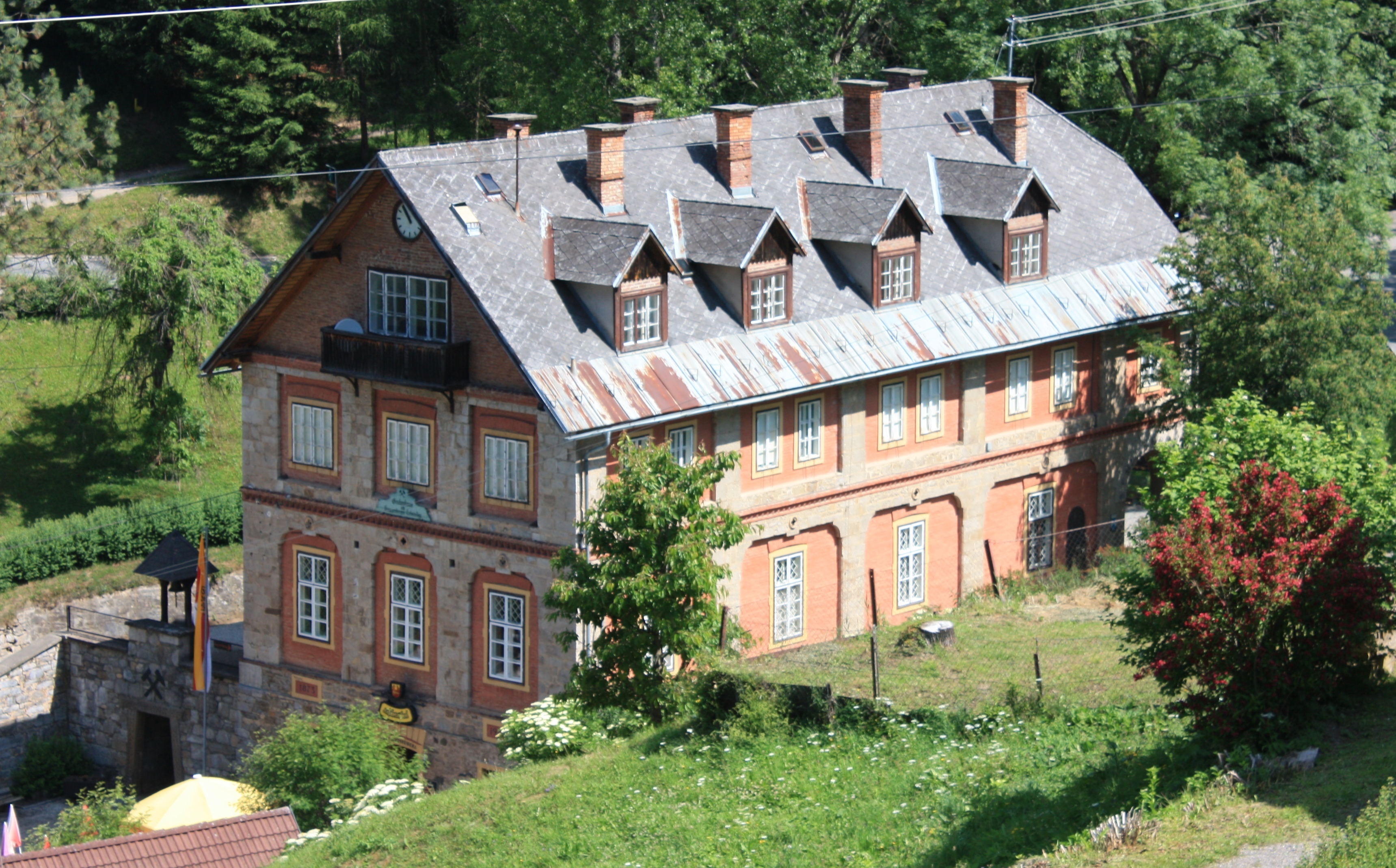 Mining-museum Locality:Knappenberg Community:Hüttenberg